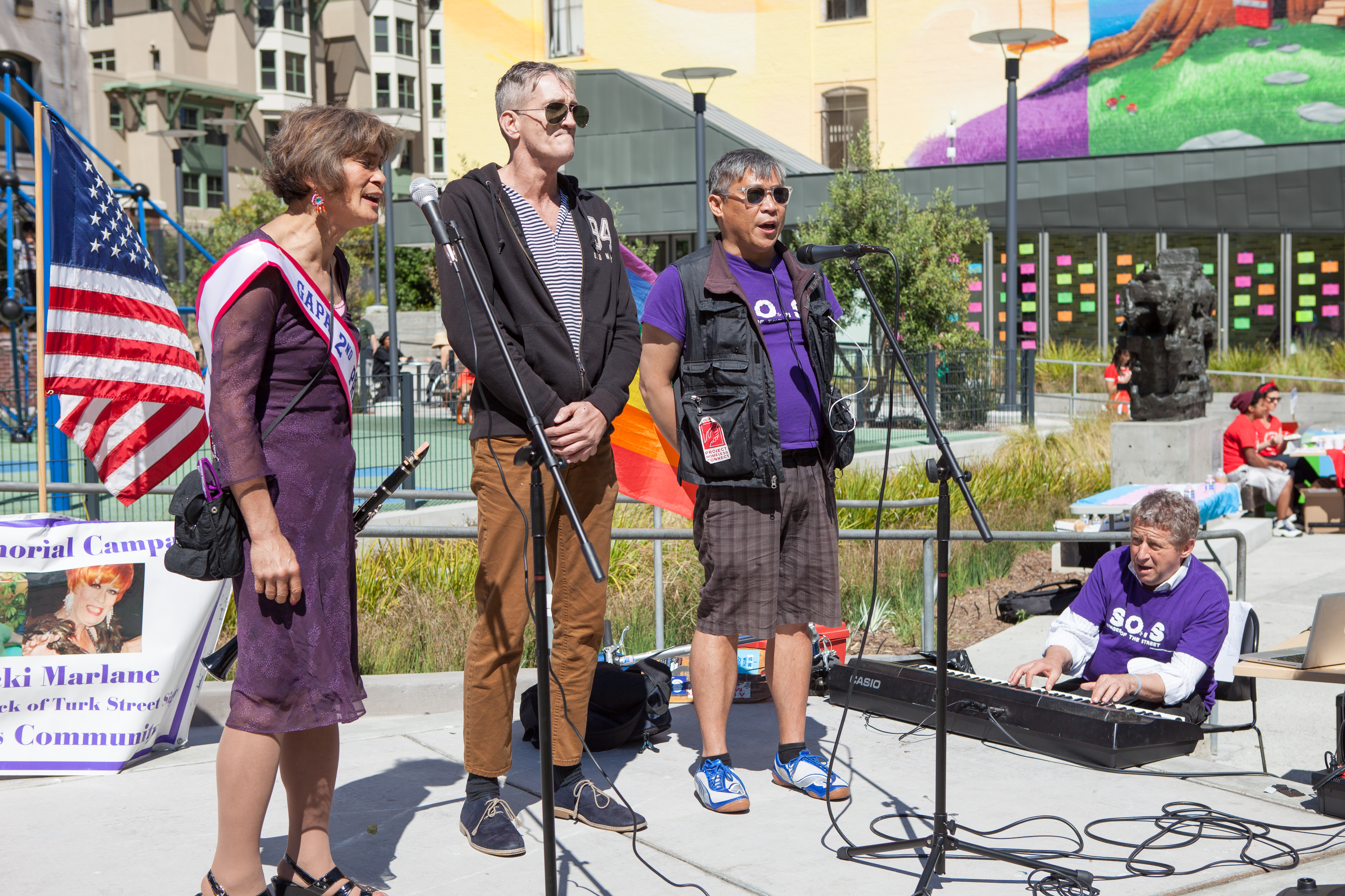 Singers of the Street, with trans elder Jasmine Jubillee Gee, perform at a celebration of the 50th anniversary of the Compton's Cafeteria Riot.